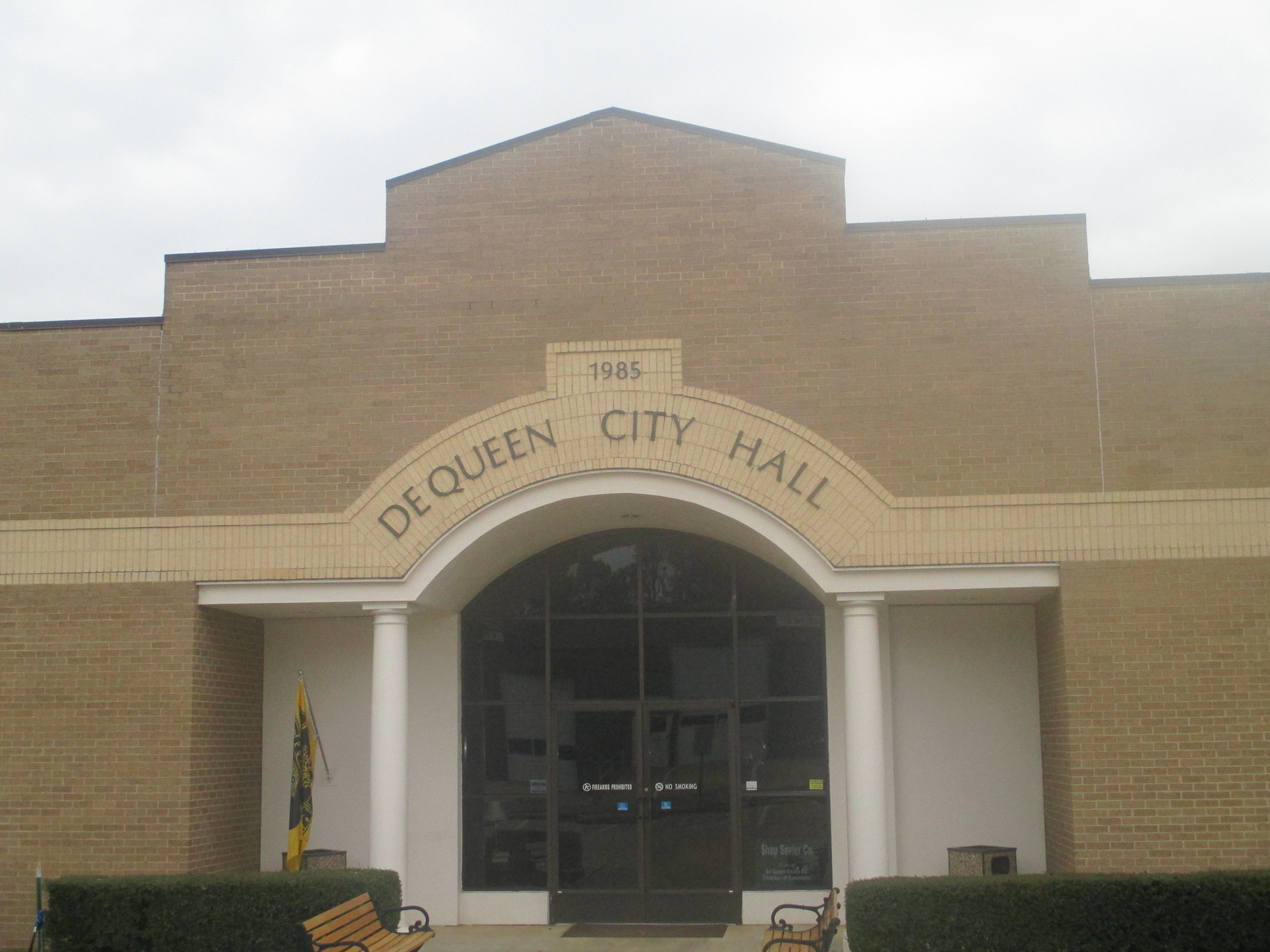 I took photo of De Queen City Hall in De Queen, AR, with Canon camera.